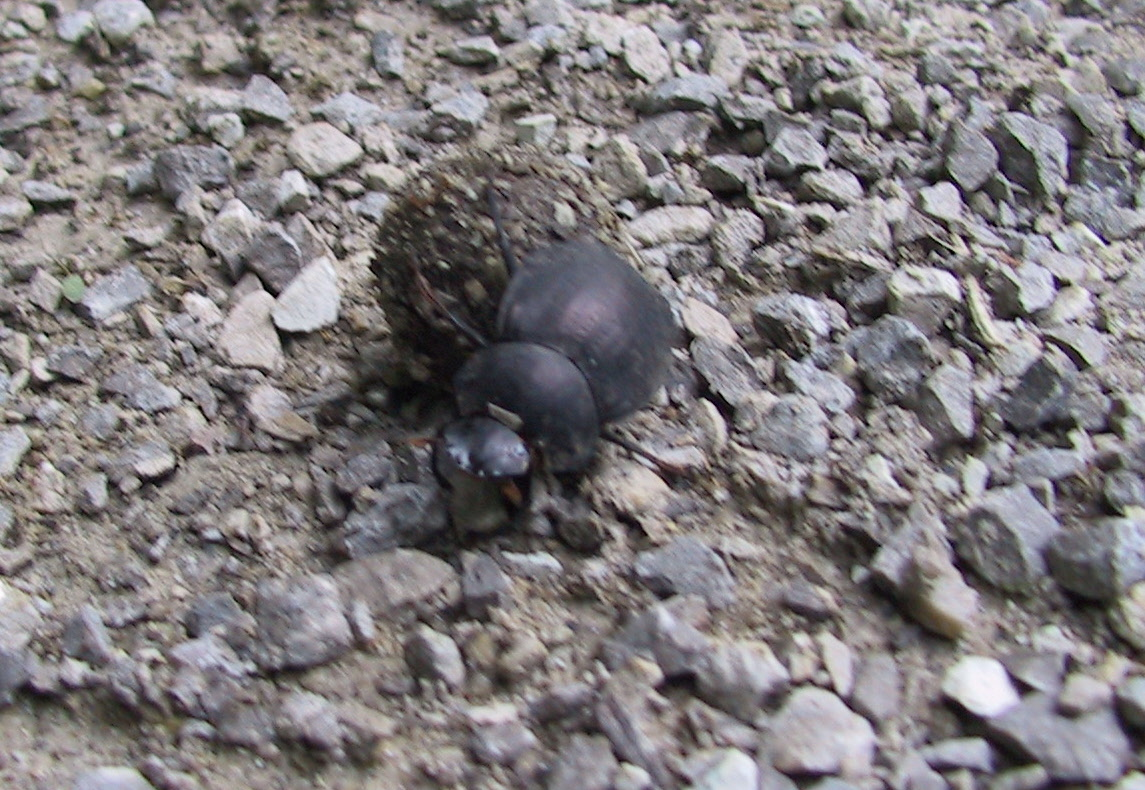 Deltochilum gibbosum, humpback dung beetle, ID Confidence: 98